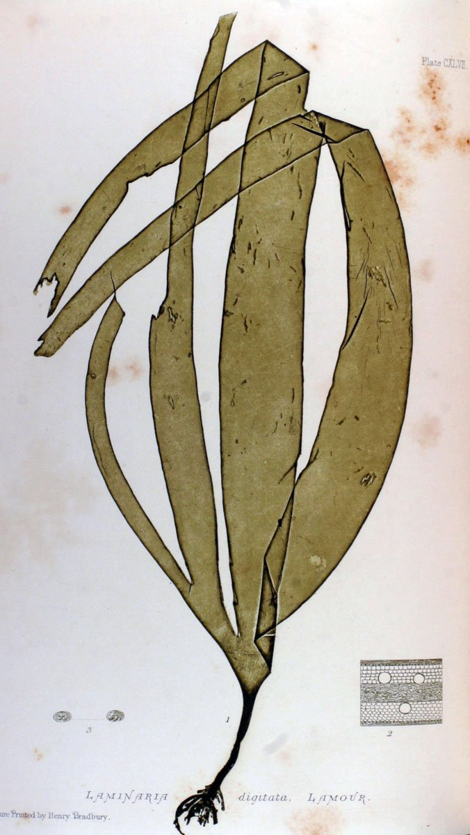 An image of a Nature Print, found at the the German wikipedia, the information there is : Johnstone & Croall: The nature-printed British sea-weeds. London 1868 which would make it tthe work of Henry Bradford.